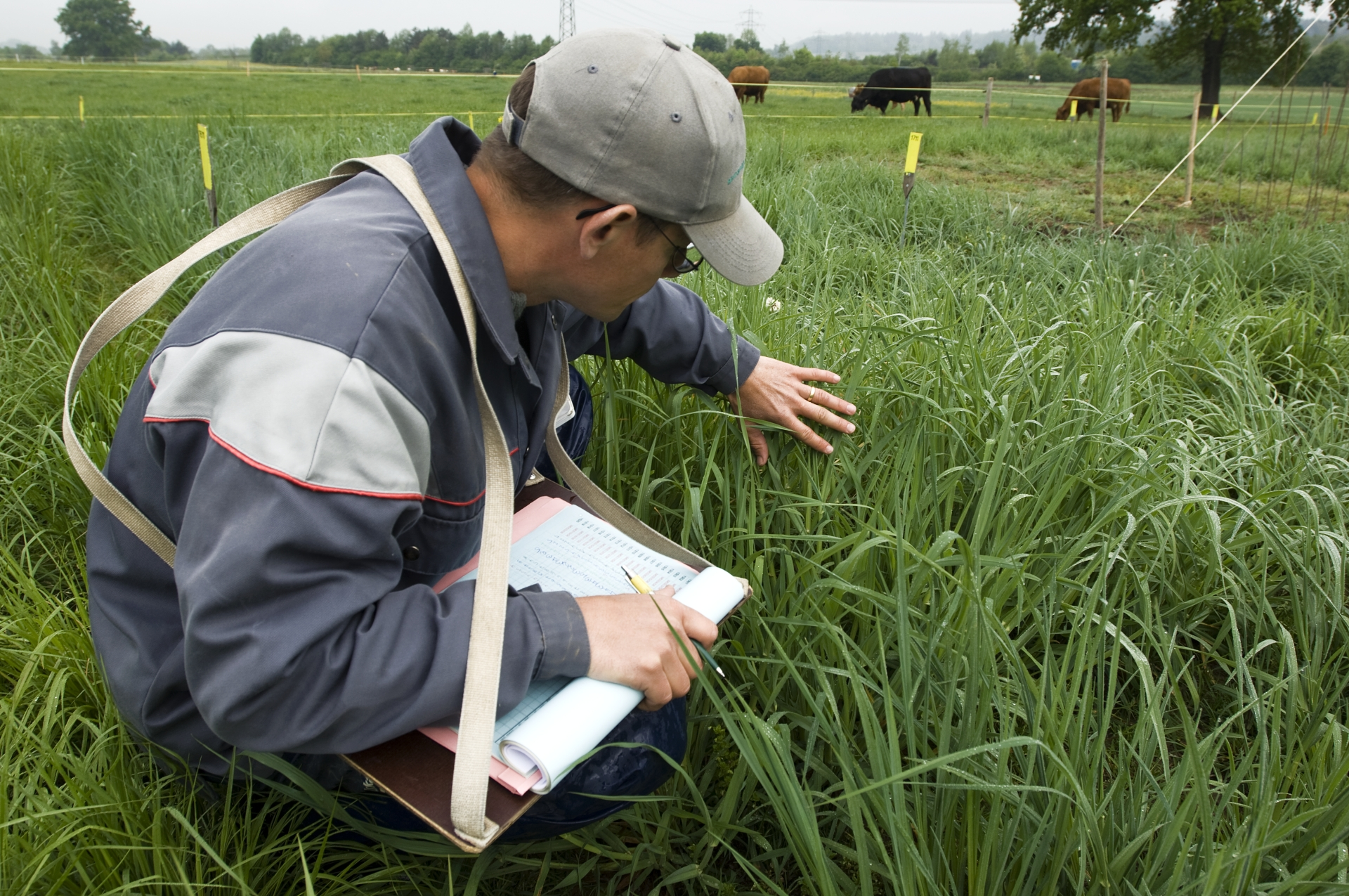 Agroscope employee carrying out research in a field